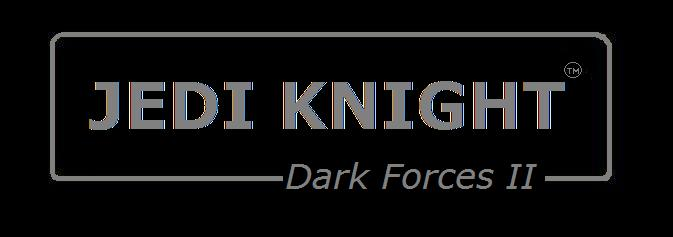 image dark forces II jedi knight